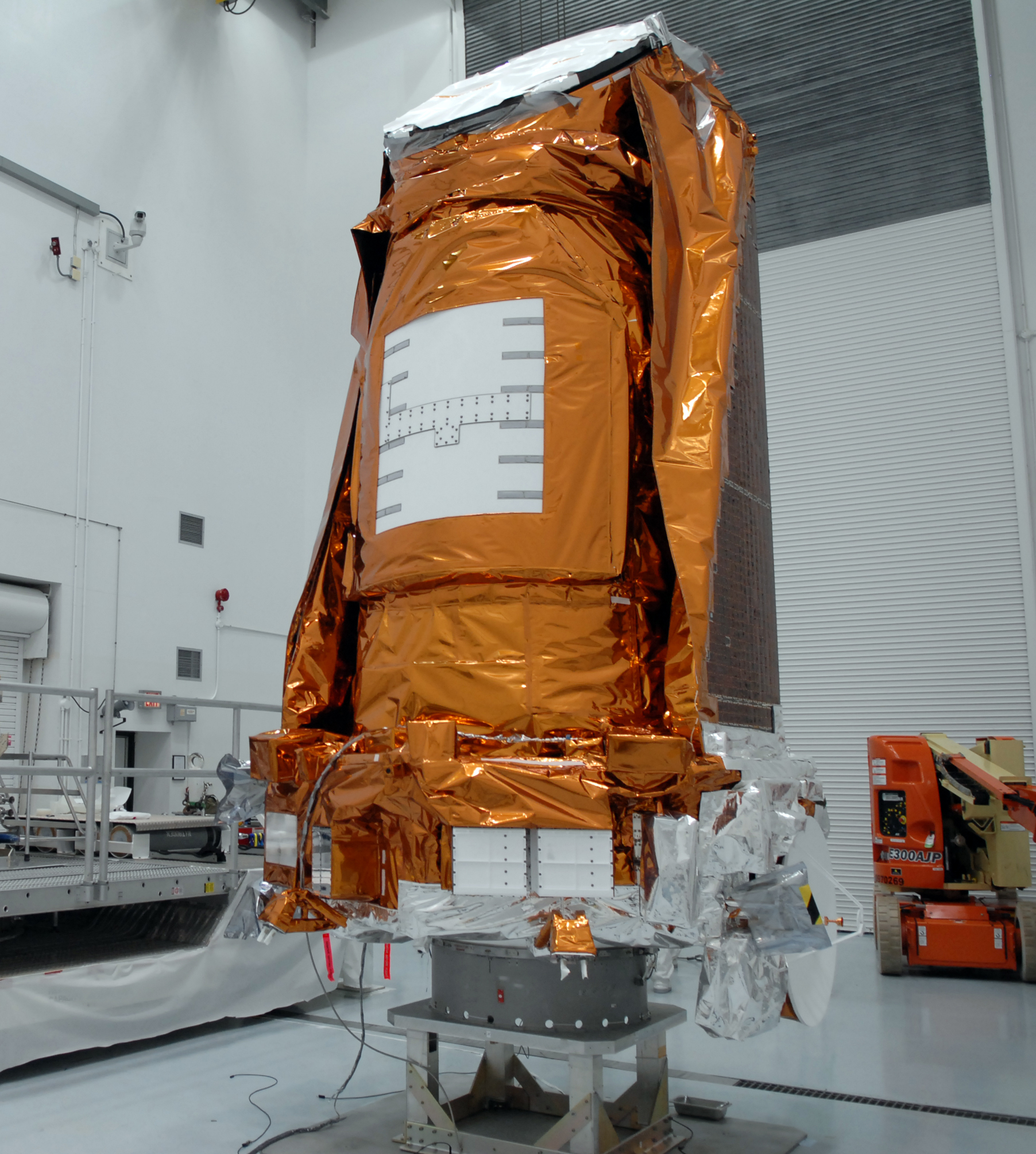 At the Hazardous Processing Facility at Astrotech in Titusville, Fla., the Kepler spacecraft awaits the next step in its processing: mating to a Delta II third stage. Kepler is designed to survey more than 100,000 stars in our galaxy to determine the number of sun-like stars that have Earth-size and larger planets, including those that lie in a star's "habitable zone," a region where liquid water, and perhaps life, could exist. If these Earth-size worlds do exist around stars like our sun, Kepler is expected to be the first to find them and the first to measure how common they are. The liftoff of Kepler aboard a Delta II rocket is currently targeted for 10:48 p.m. EST March 5 from Space Launch Complex 17 on Cape Canaveral Air Force Station.